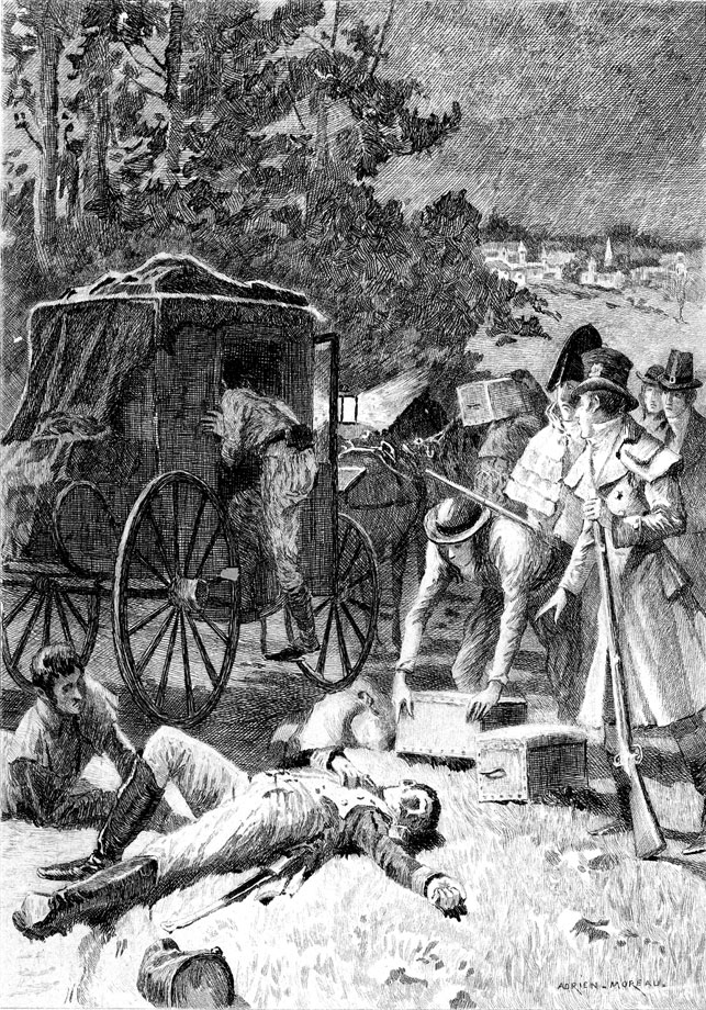 Title page of Honoré de Balzac's Z. Marcas.